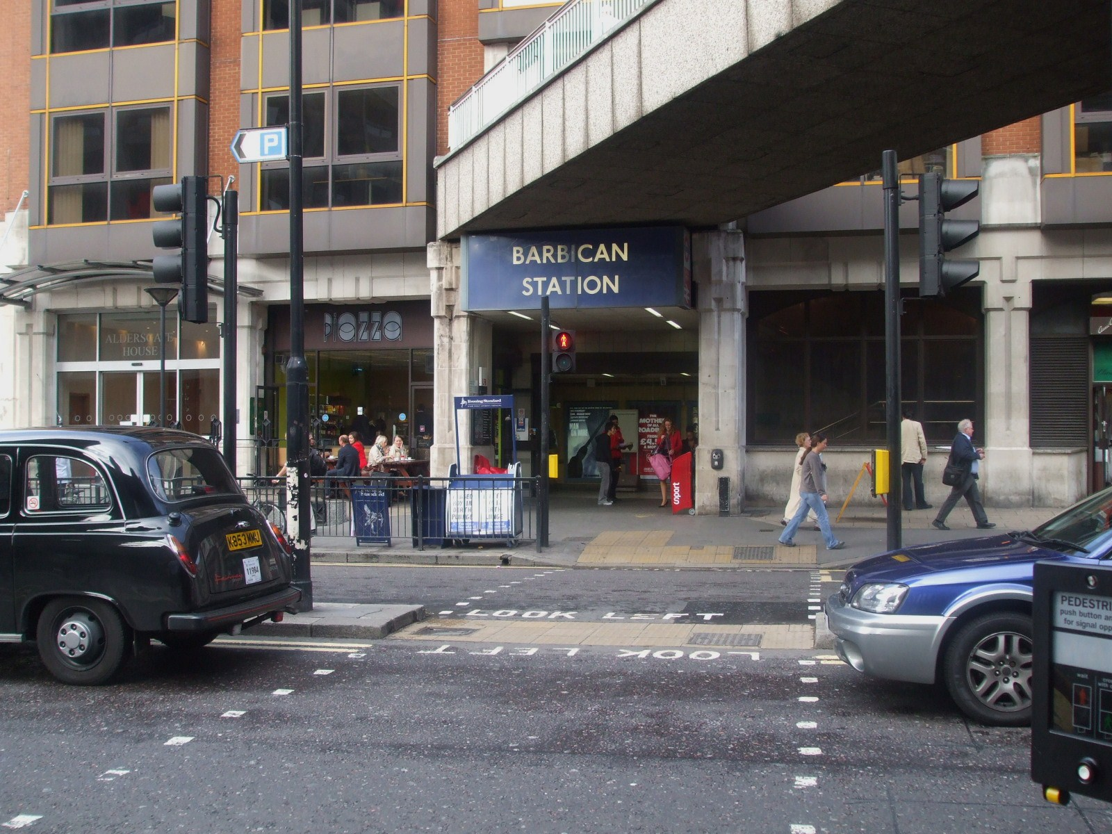 Barbican station entrance. Served by Underground and Thameslink.